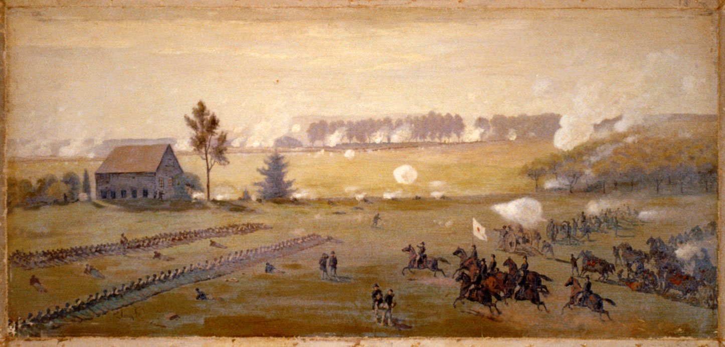 The caption in Clark, Champ, and the Editors of Time-Life Books, Gettysburg: The Confederate High Tide, Time-Life Books, 1985, ISBN 0-8094-4758-4 for this painting says "At the tip of the Peach Orchard salient, Union Gen. Daniel Sickles spurs ahead of his staff to inspect the front lines of his threatened III Corps on the afternoon of July 2. Confederates can be seen massing for an attack by the fringe of trees in the distance.